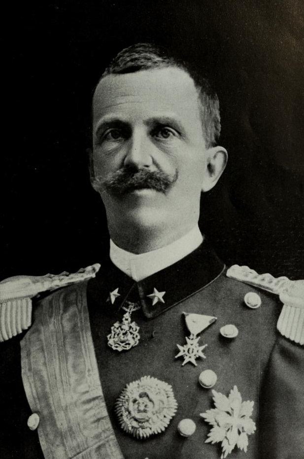 King Victor Emmanuel III of Italy